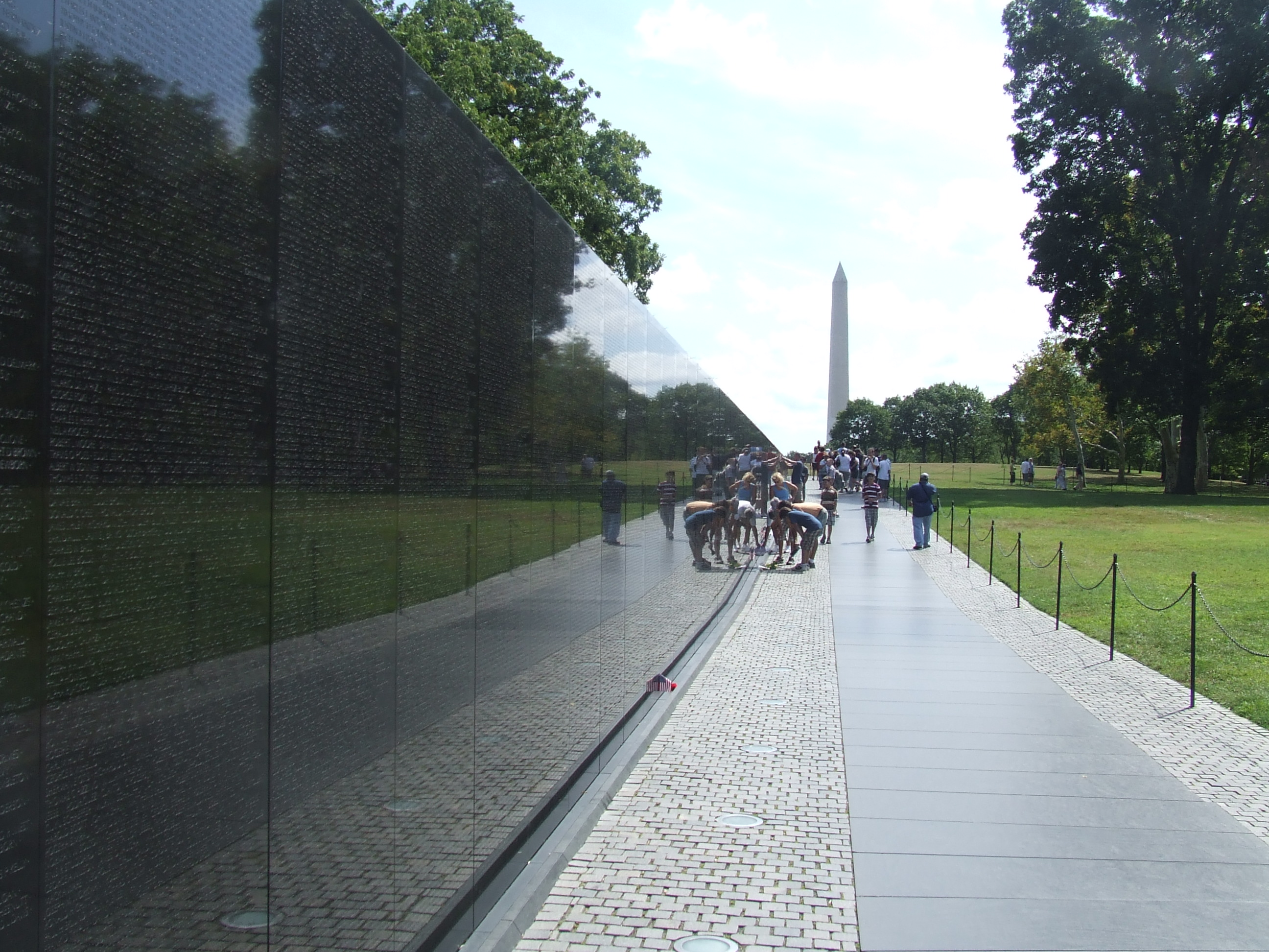 Vietnam Veterans Memorial in Washington DC